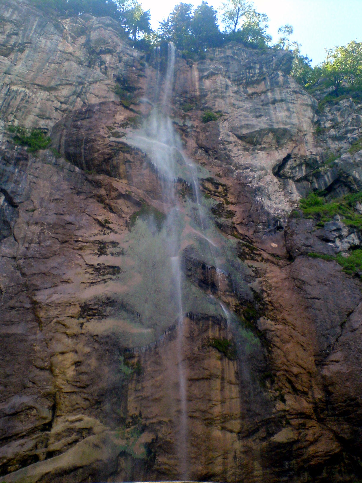 Picture of waterfall Skakavac.